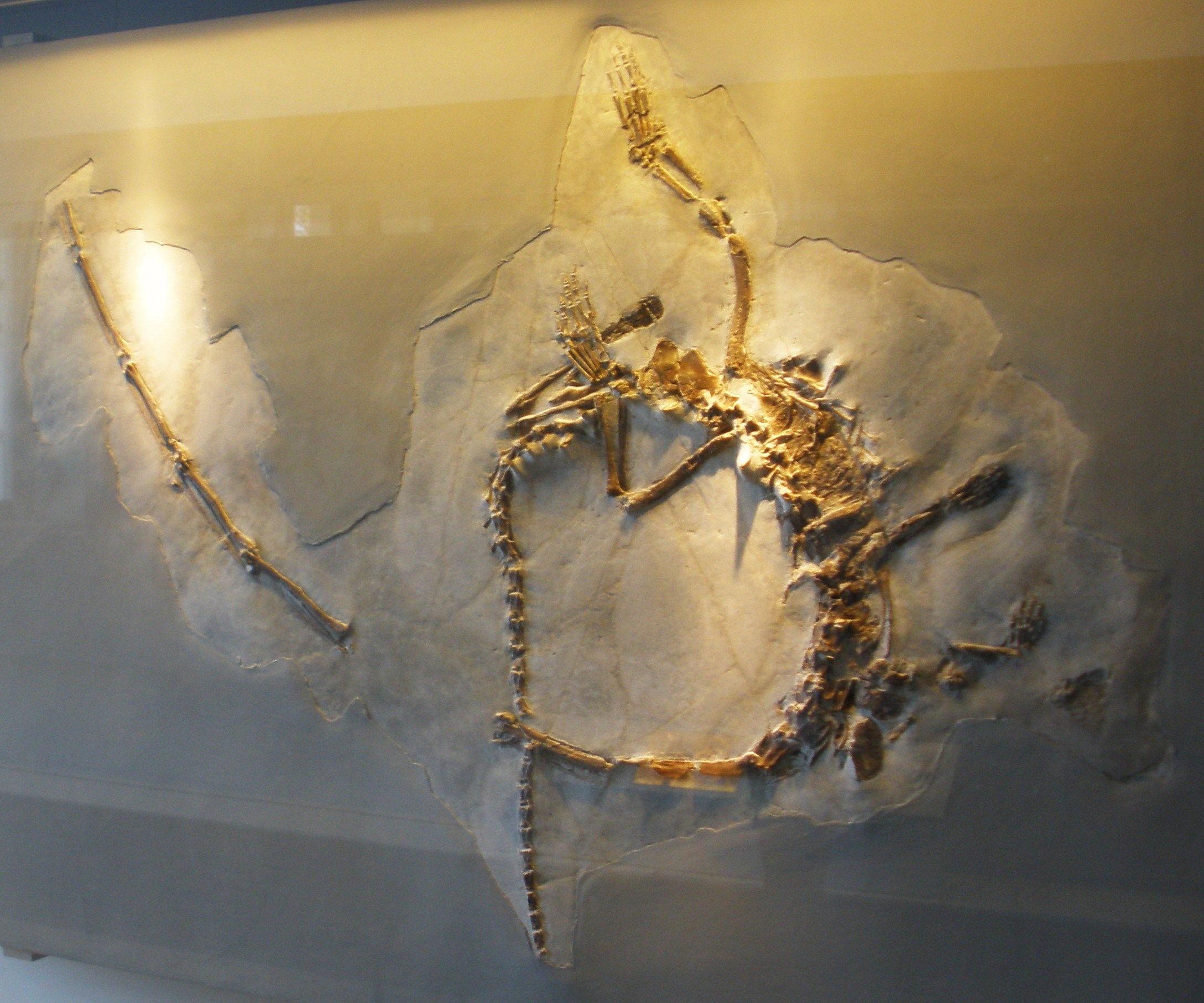 fossil tanystropheus